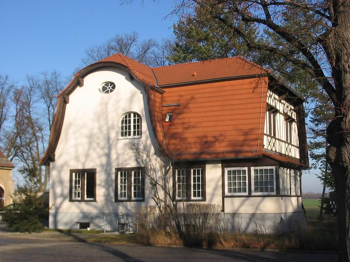 Former hunting lodge of family Wertheim in Groß Schulzendorf. Today Schule am Wald (german for: school at forest), school for Special education of children with Mental retardation. The village Groß Schulzendorf is a part of the town Ludwigsfelde in the district Teltow-Fläming, state Brandenburg, Germany.